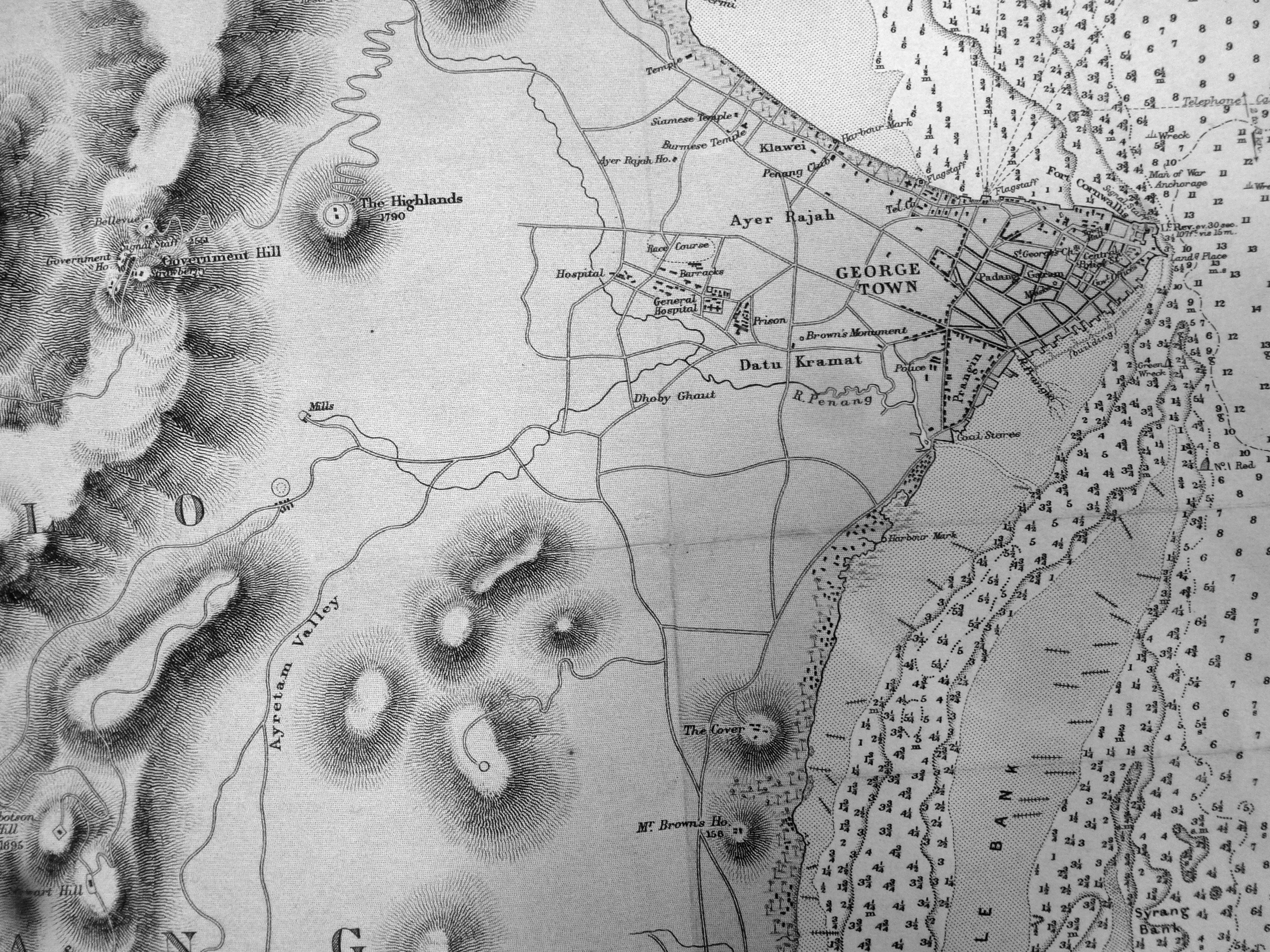 Extract showing George Town of the map labelled MALACCA STRAIT PULO PENANG PENANG HARBOUR Surveyed by Commander the Hon. Foley C. P. Vereker, R. N., assisted by Lieut. C. G. Frederick, A. Balfour, H. Belam, H. Douglas, and H. Evans, R. N., H. M. S. Magpie, 1884. ...